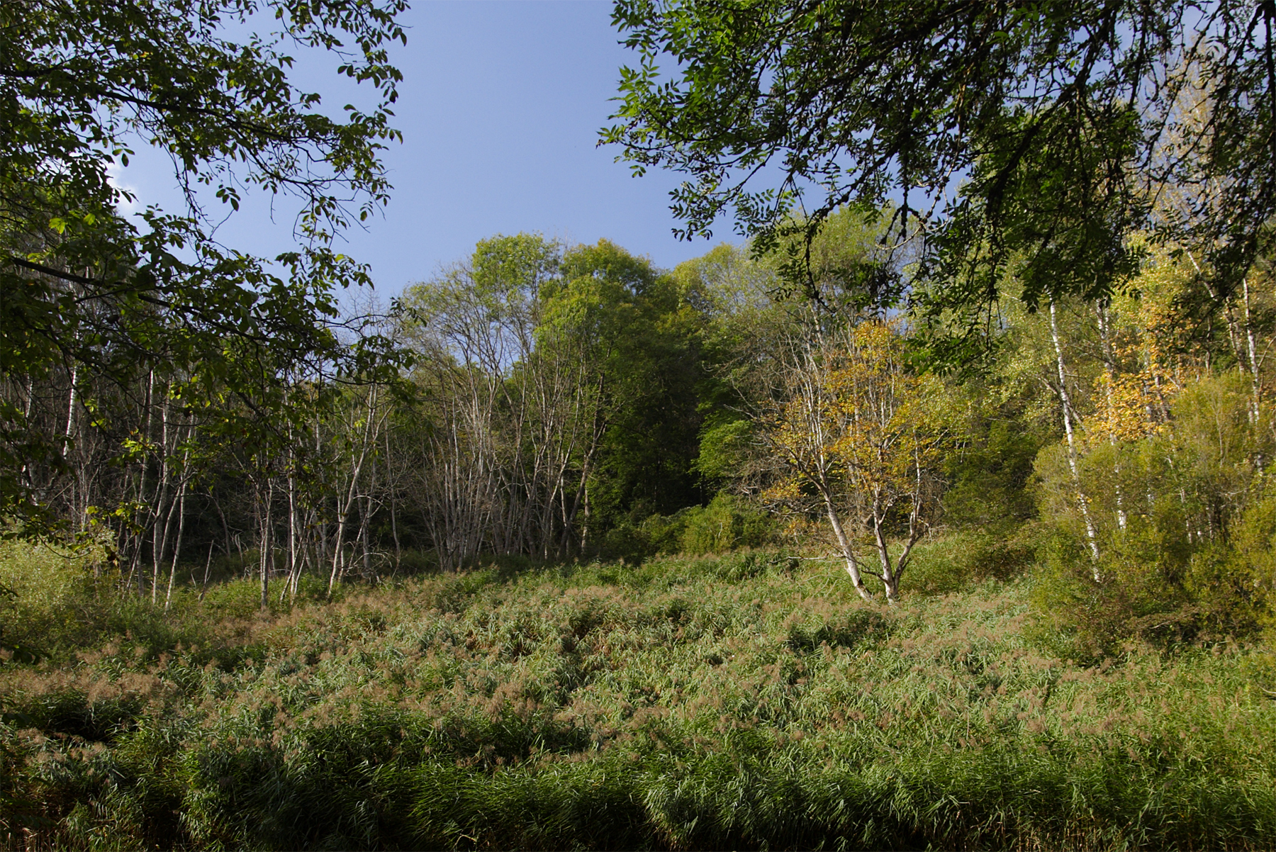 Rare, broad field of a karst spring, emerging from the lower Muschelkalk, a lithostratigraphic unit of the South German Scarplands. The phragmites, here, however, grow on a relatively steep slope. There is old and recent Kalktuff (calcareous tuff) in the Geotope. Location: Glatt, off "Sulz am Neckar".